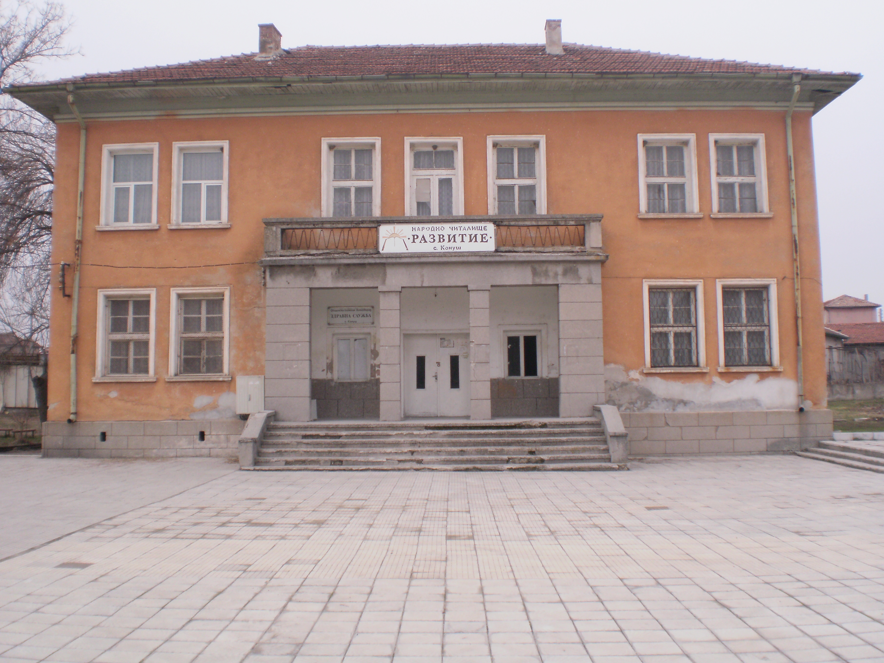 Народнo читалише "Развитие"